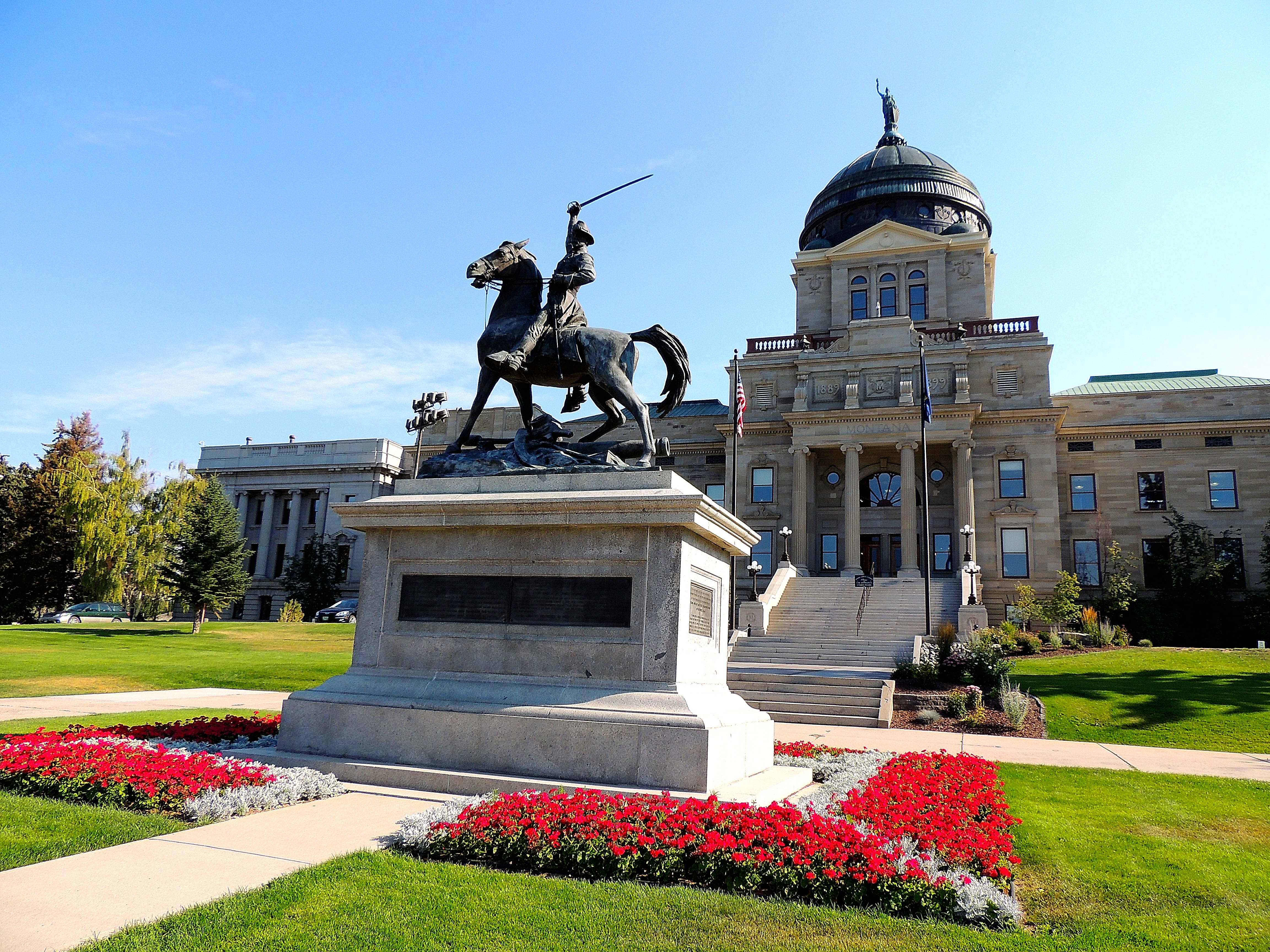 Montana State Capitol in, Helena, MT. 2012.